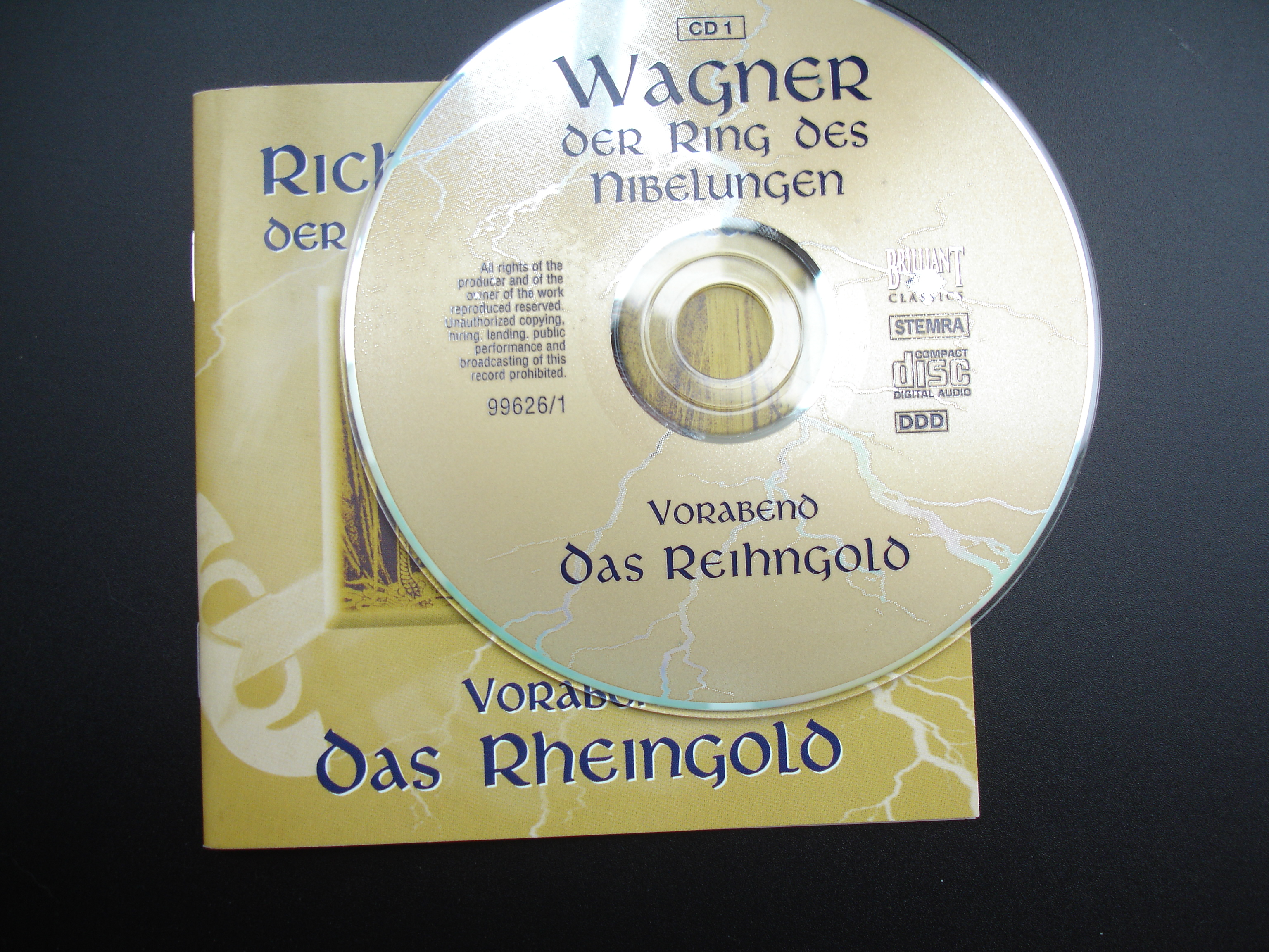 Spelling error on CD